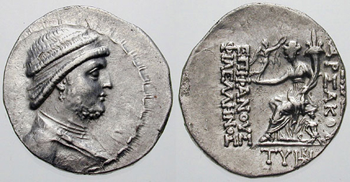 Coin of the Parthian king Mithridates II